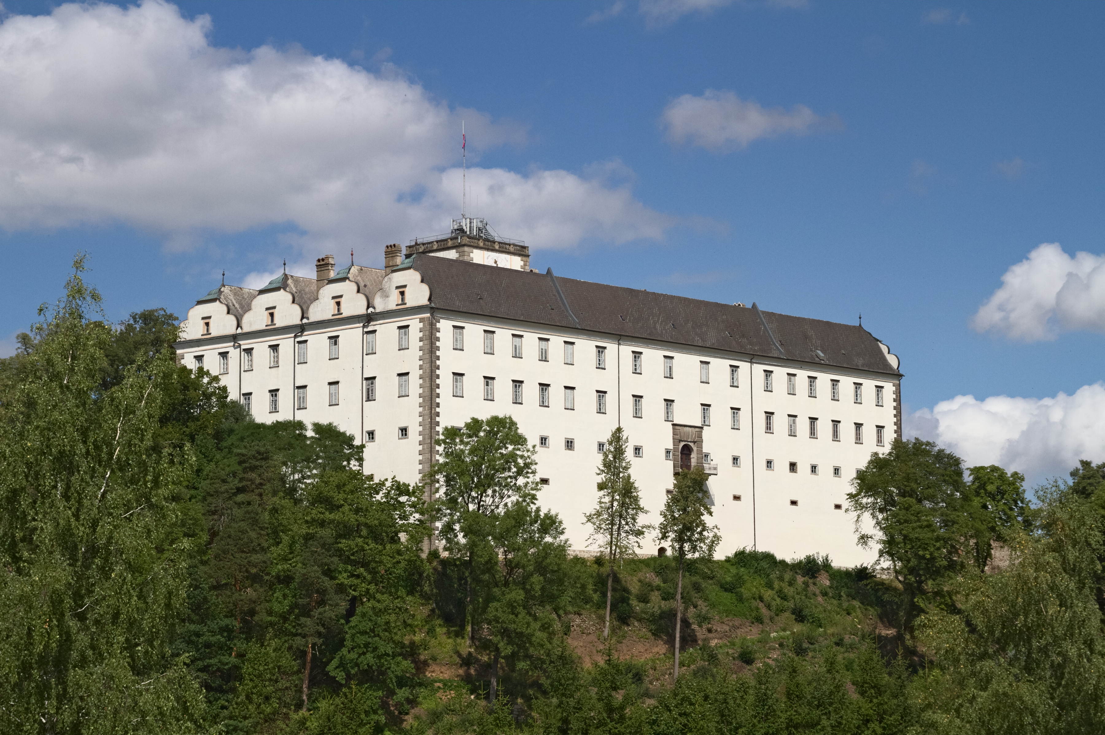 Weitra castle, southern view.